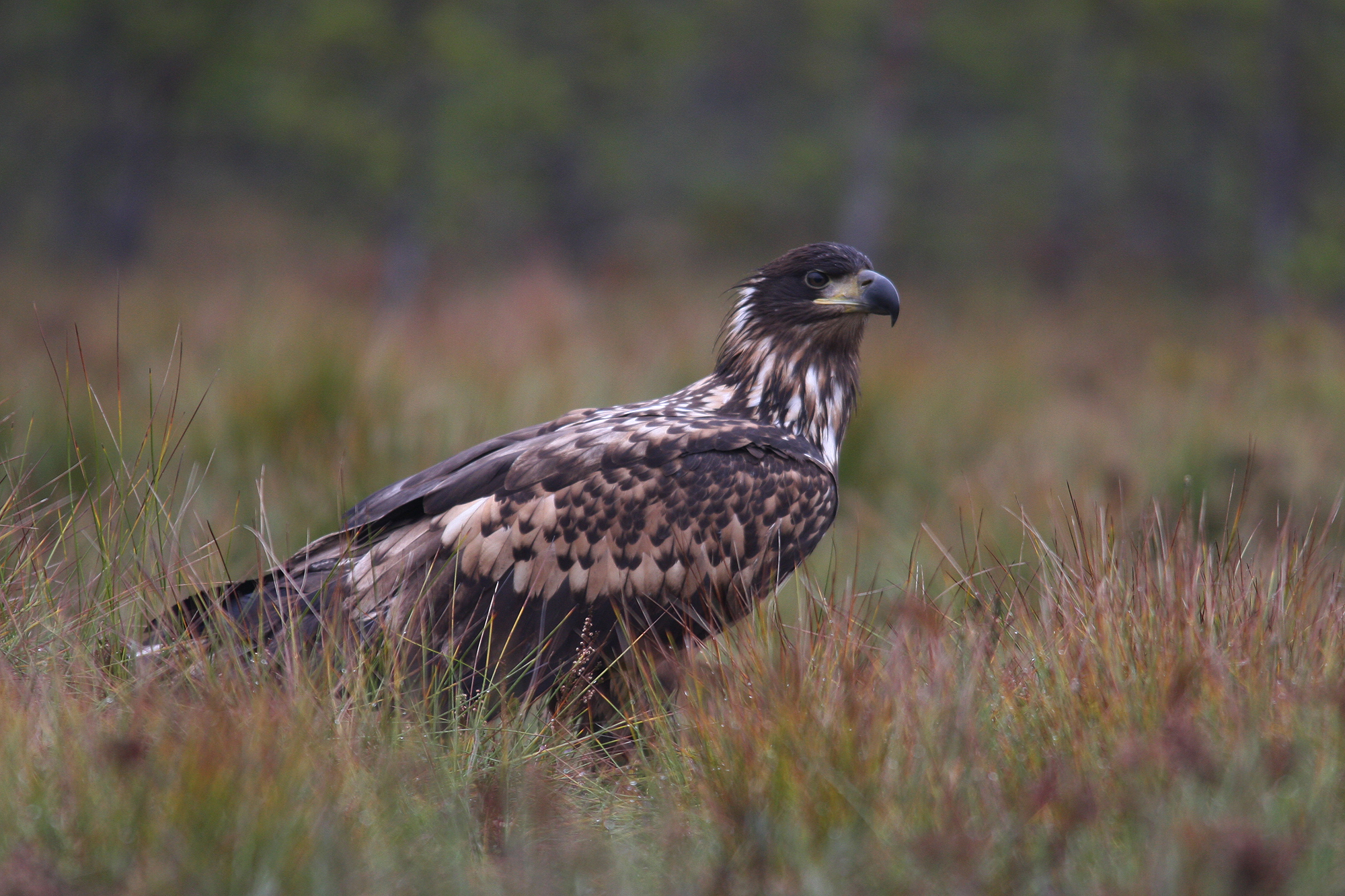 Haliaeetus albicilla in Tartu County Estonia.